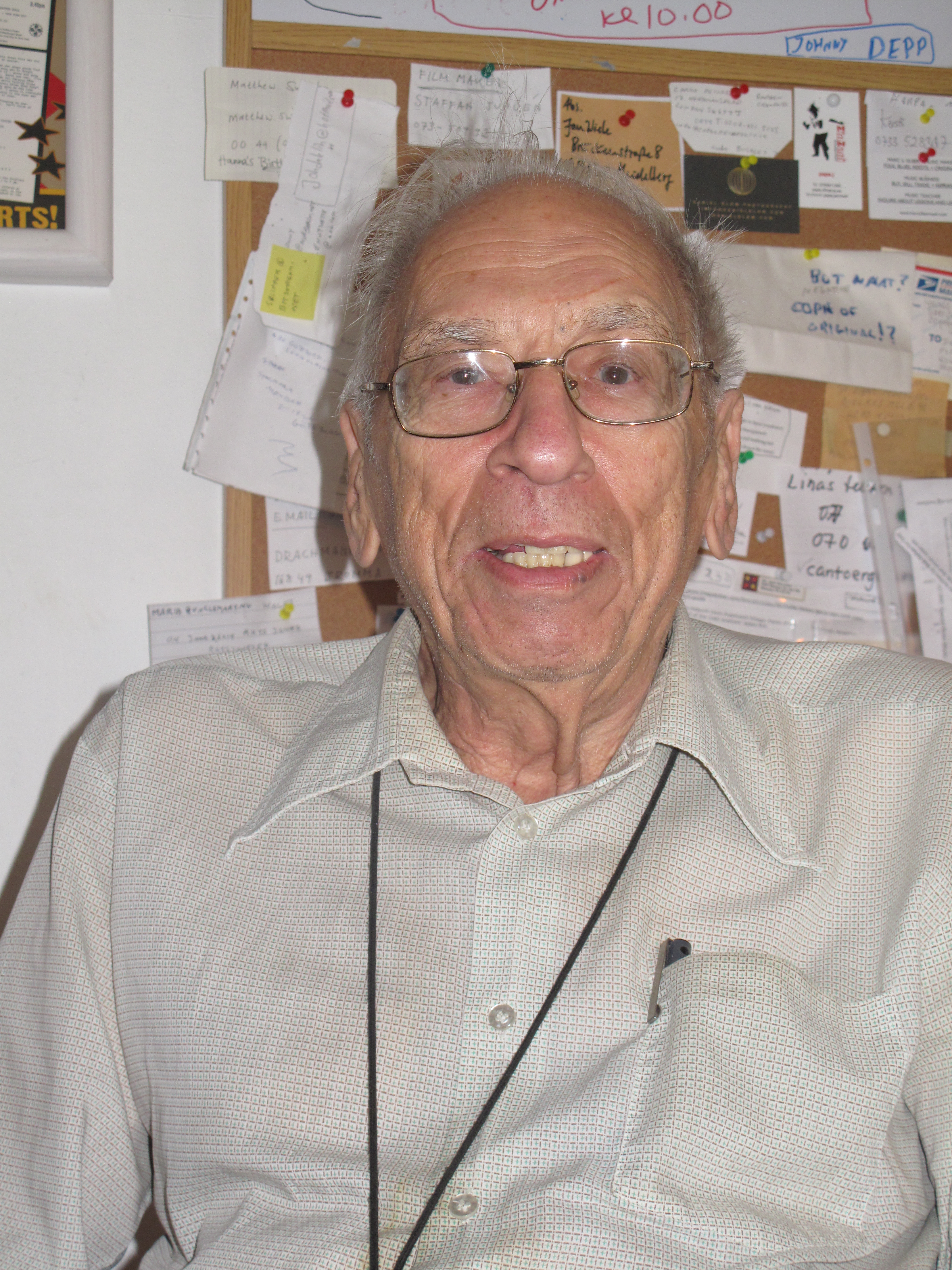 Izzy Young sitting in his Folklore Center in Stockholm, in August 2014